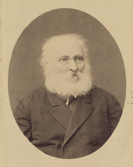 Pictures from the Schwadron collection of the National Library of Israel Avrom Ber Gotlober אברהם בר גוטלבר